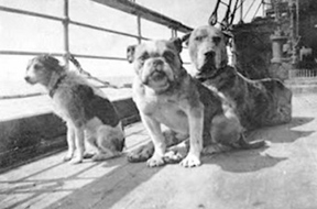 Dogs onboard the Titanic. The Great Dane in the rear on the right is probably Ann Elizabeth Isham's dog